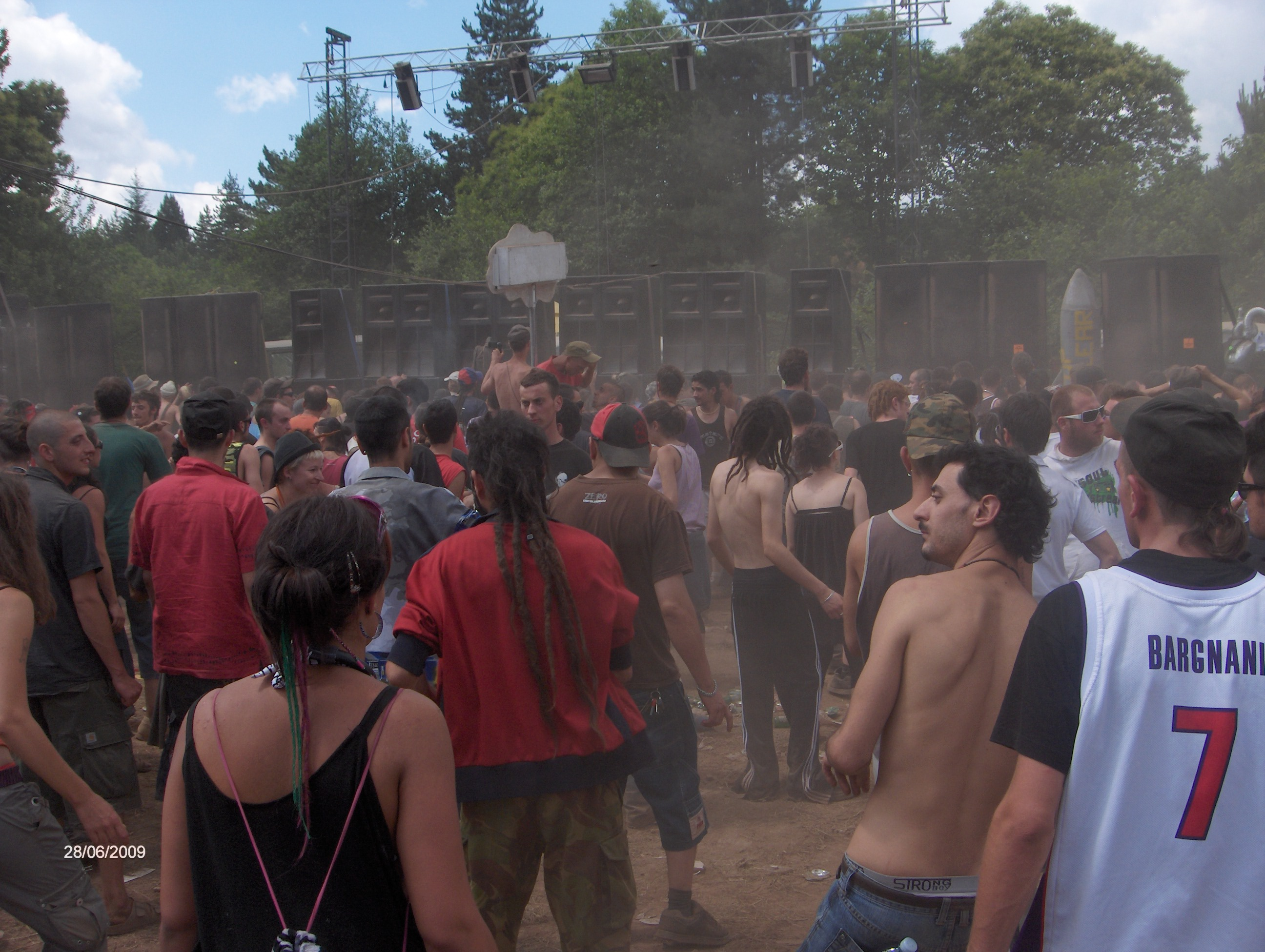 A free Party, in Nord Italy, 2009.